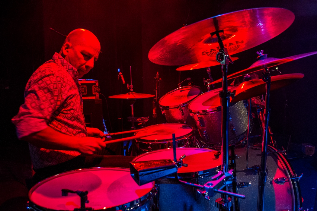 John Tonks – drummer for Neneh Cherry, Amandine Bourgeois, Jess Mills, Chris DeBurgh, The Streets, Gabriella Cilmi, Paul Oakenfold, Tricky, Duran Duran, Lamb, Thea Gilmore, Fish, Stina Nordenstam, Lemonjelly, Steve Winwood, Sugababes, CirKus, Thunder etc etc.